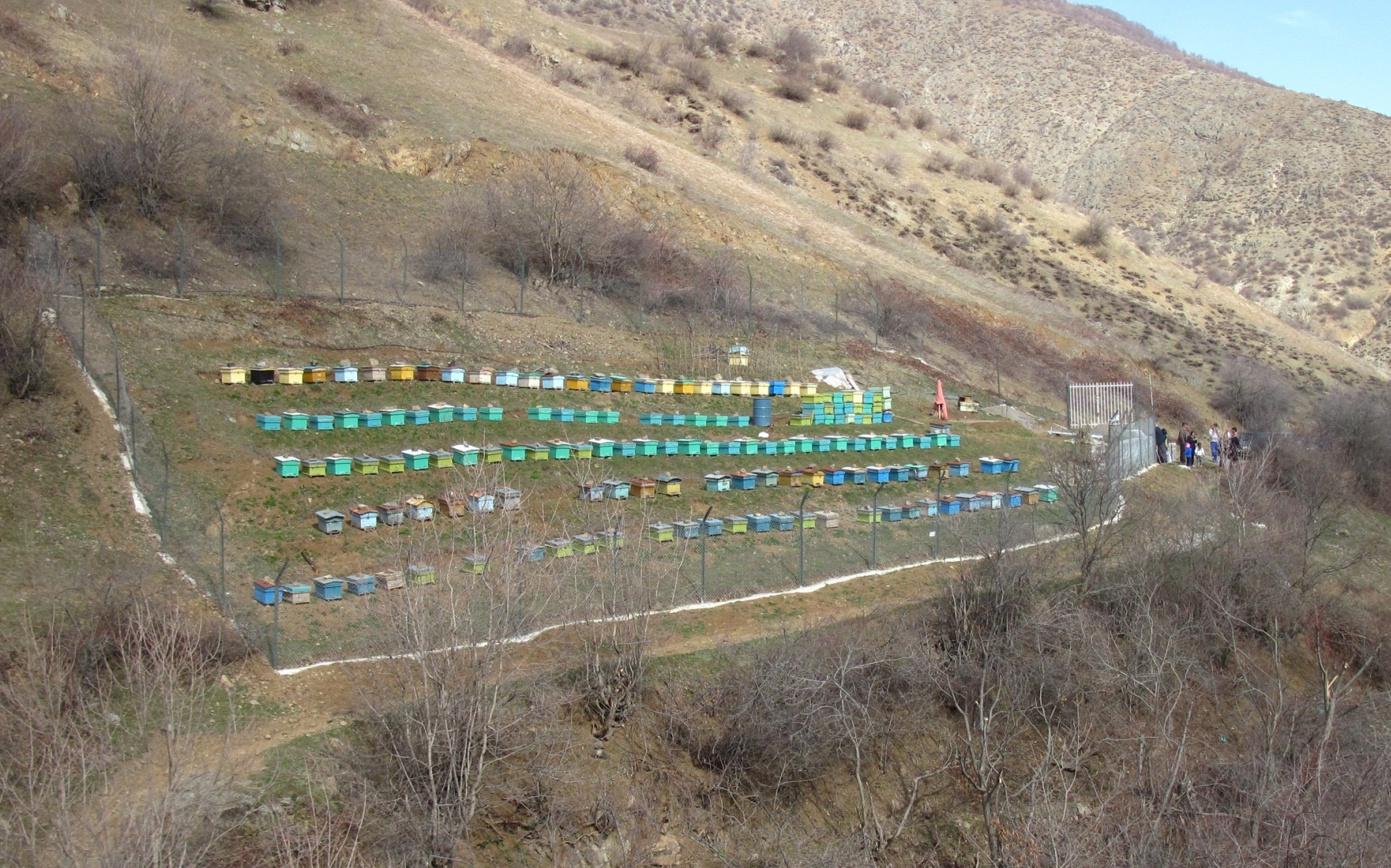 This photo of a beekeeping farm was photographed in Arasbaran region.